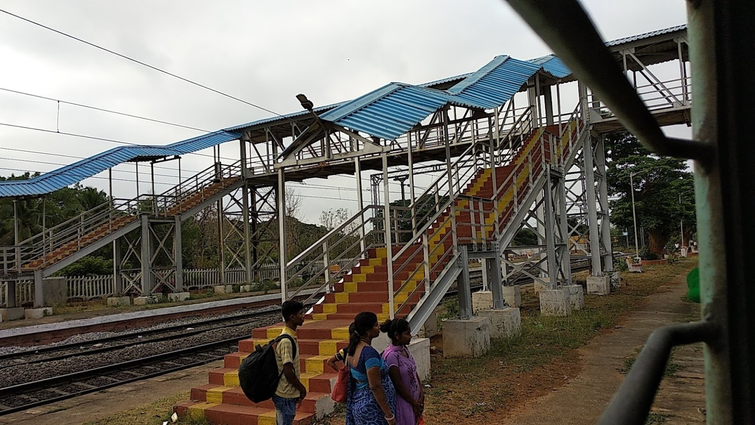 This is the Picture of Chilka railway station